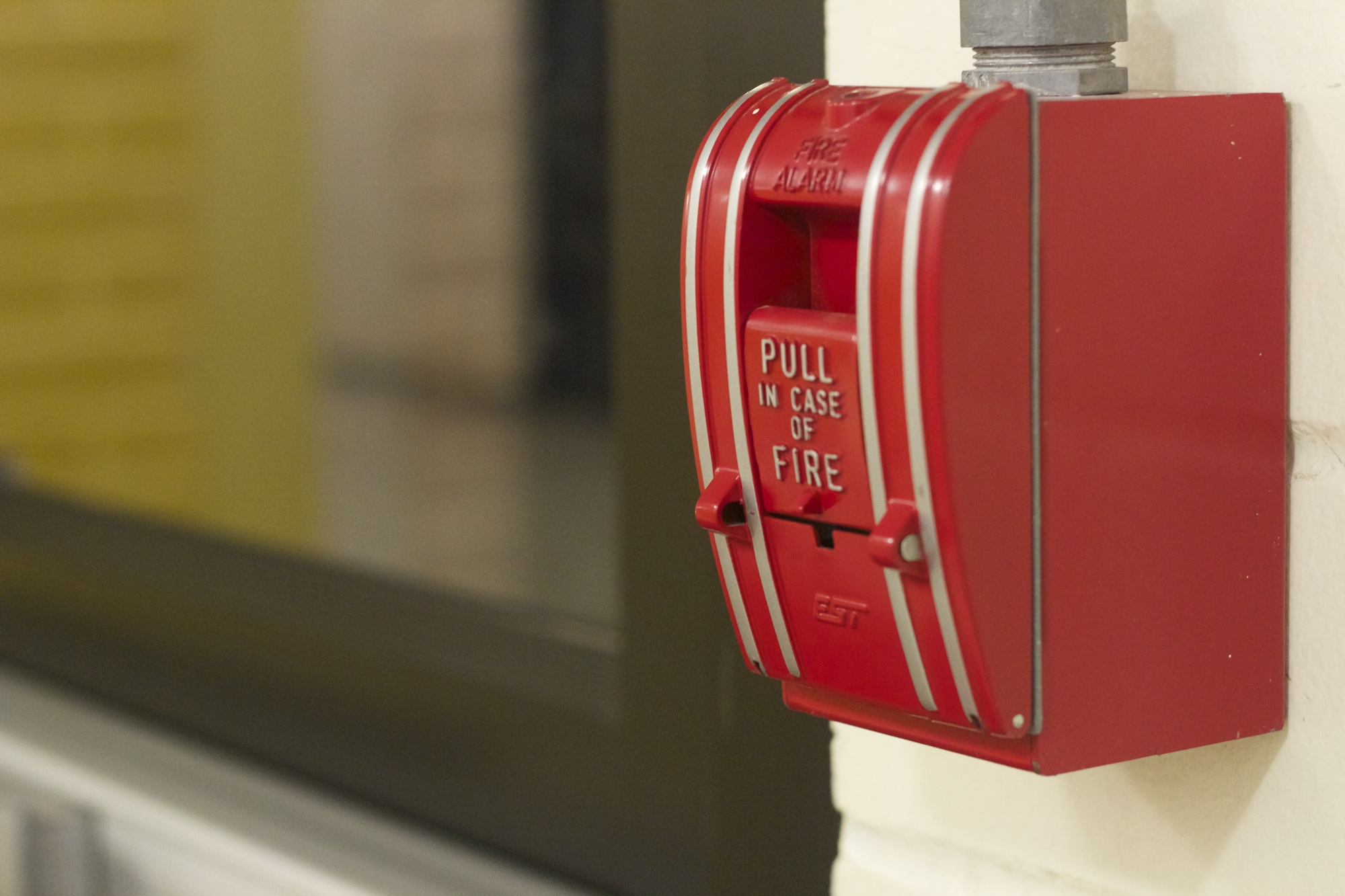 Fire alarm